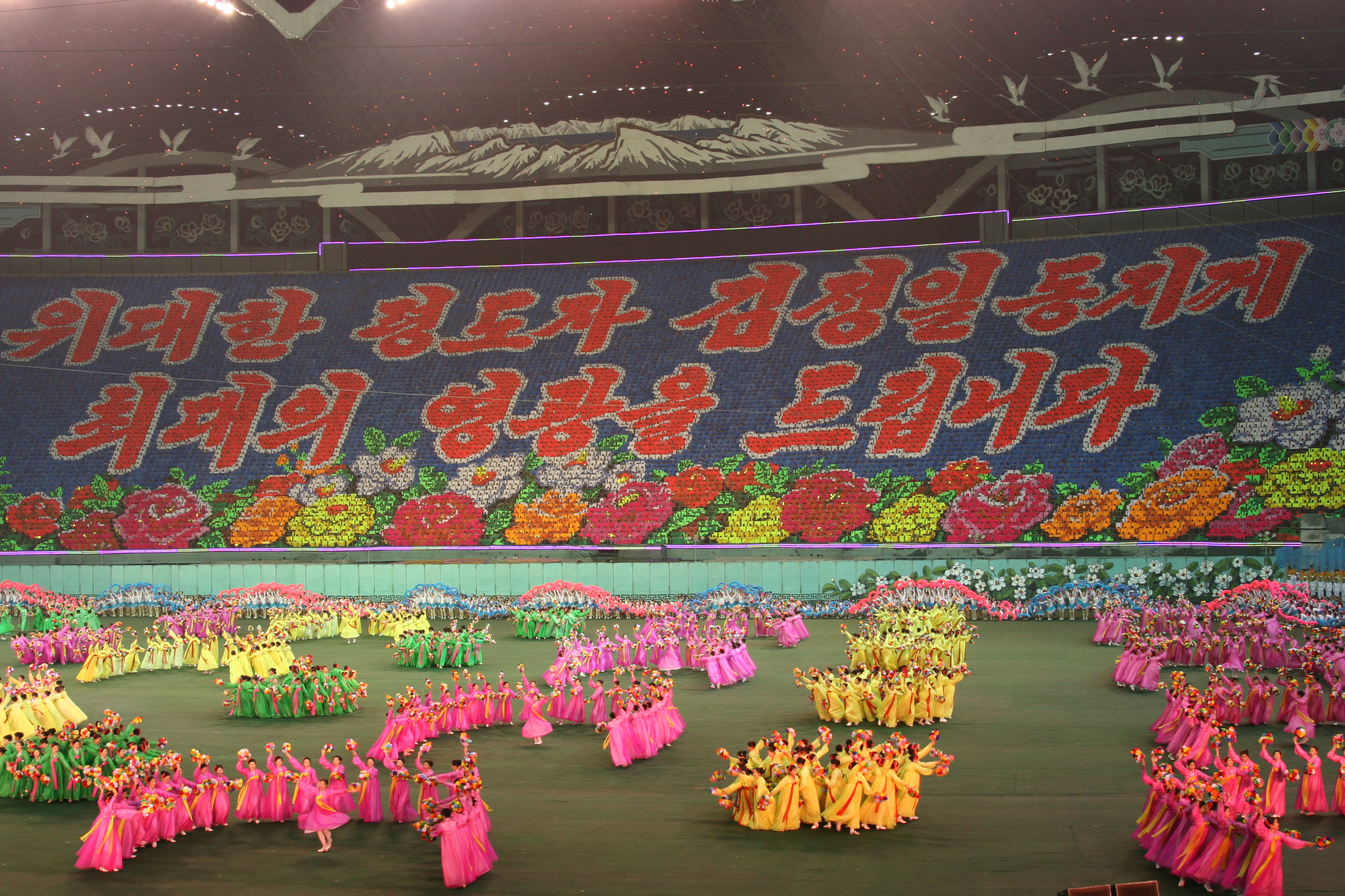 Mass Games